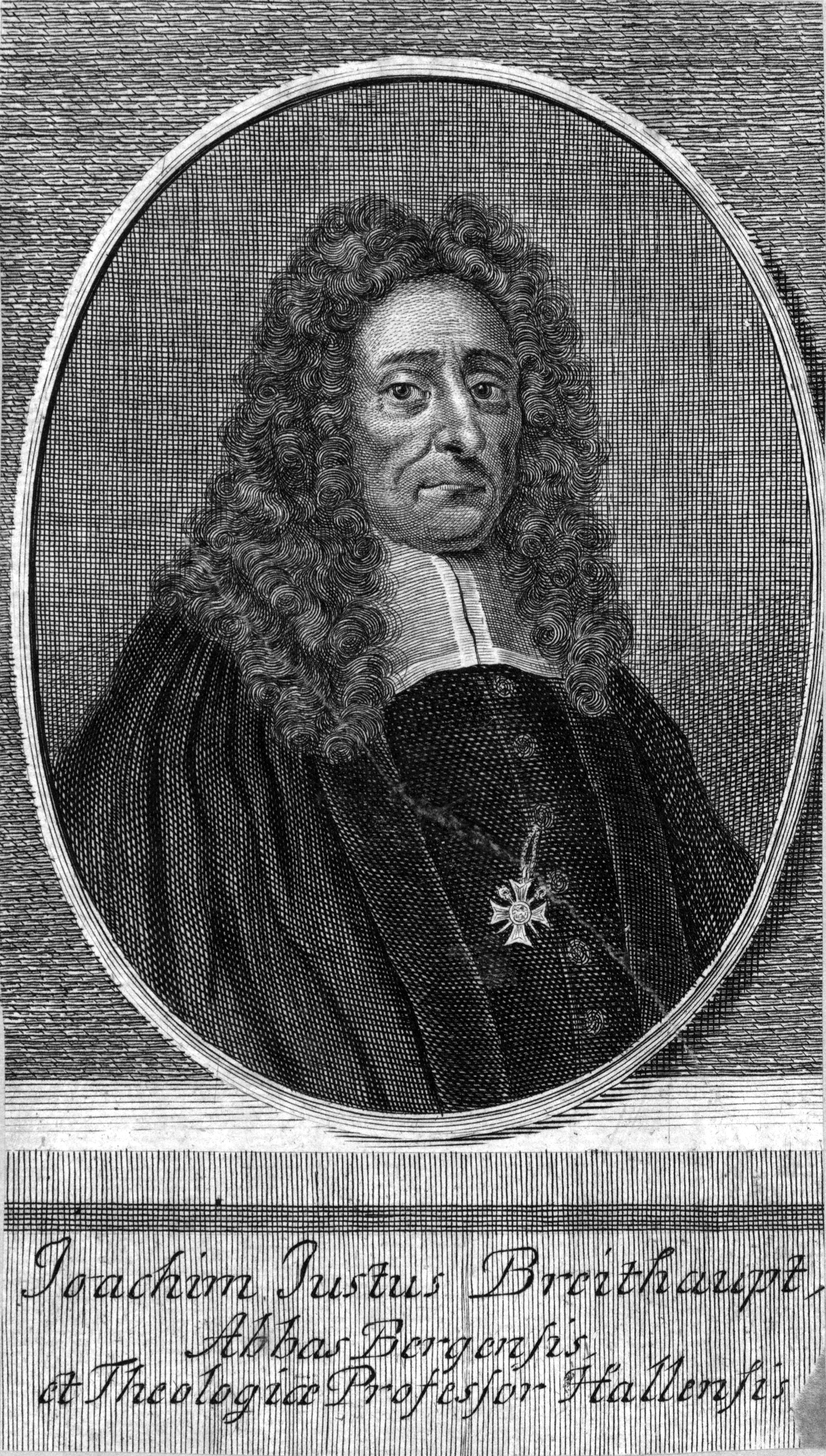 Joachim Justus Breithaupt (1658-1732) Protestant theologian from Germany